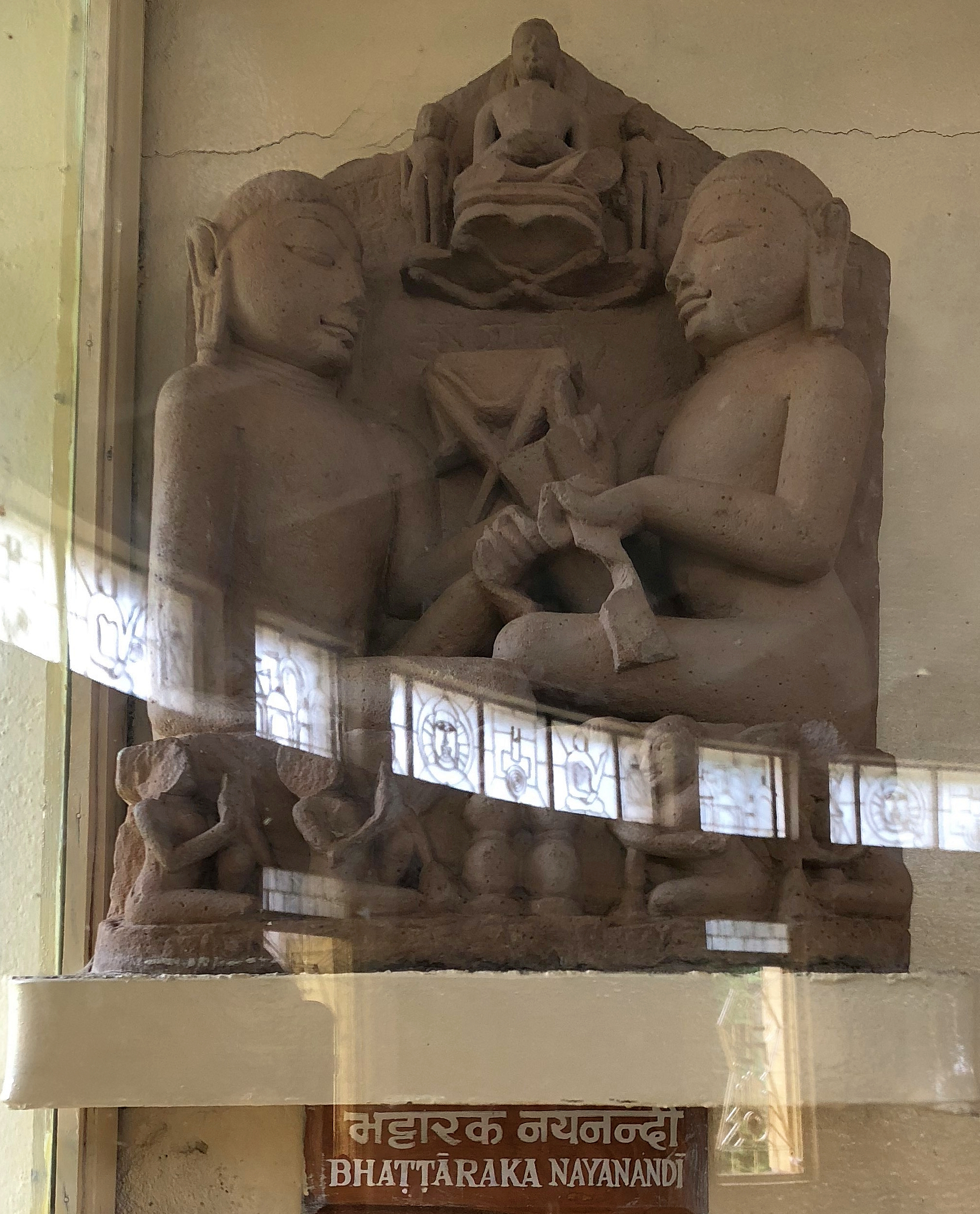 Bhattaraka Nayanadi, Khajurao sculpture, Jain Museum